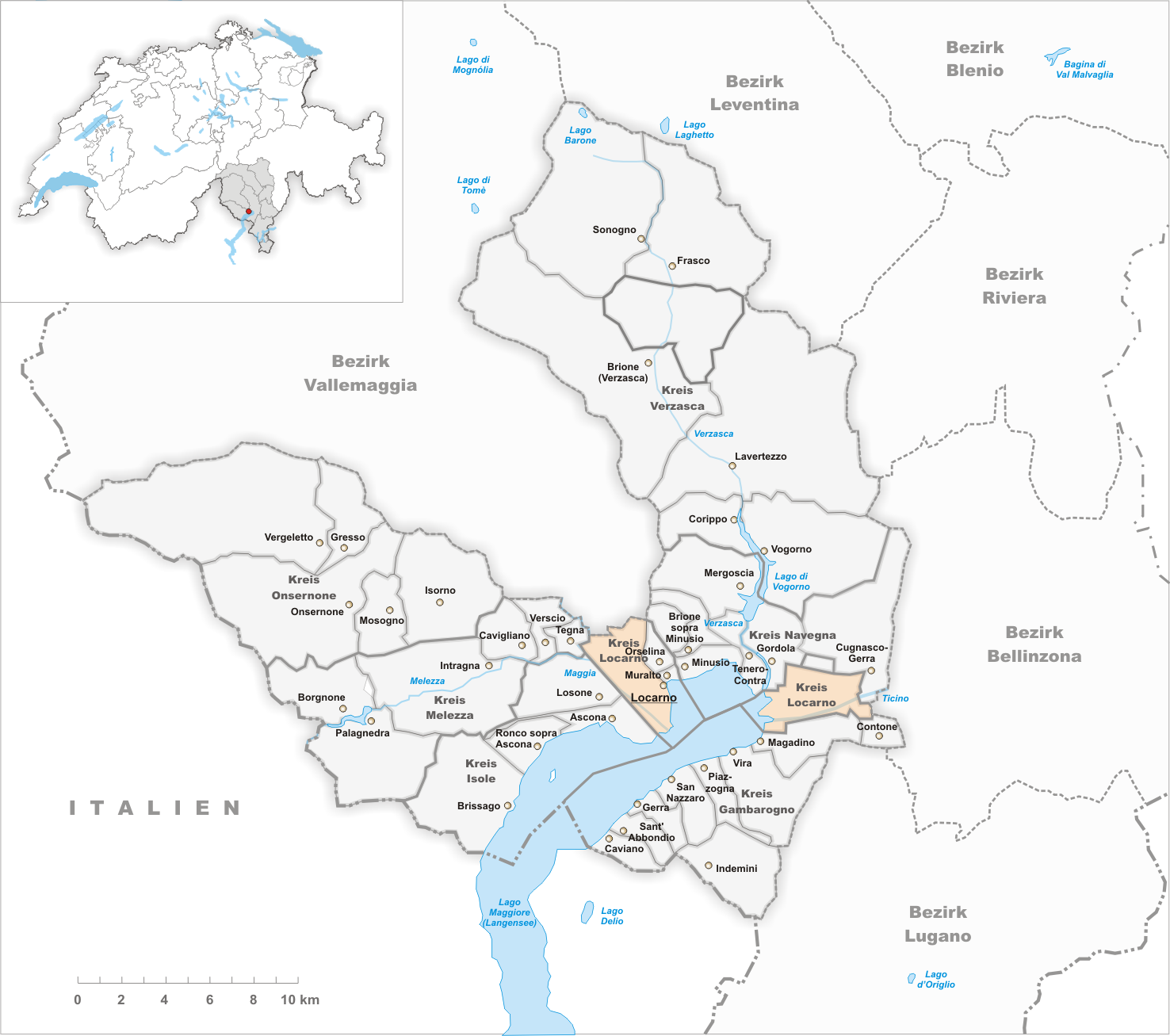 Municipality Locarno